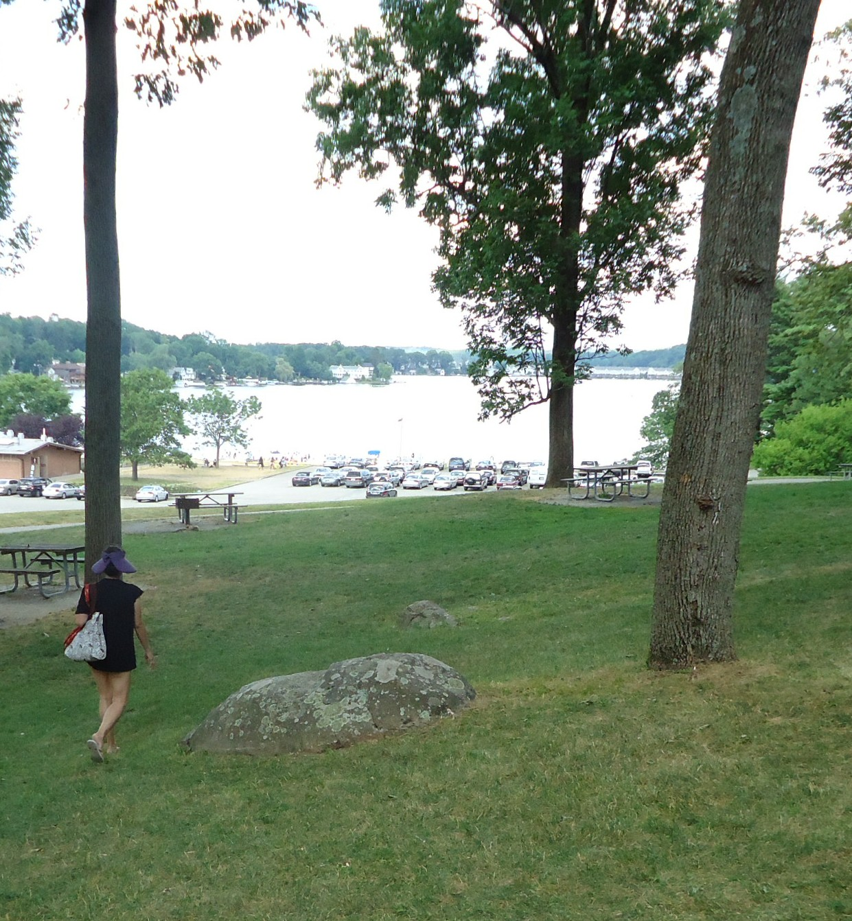 A woman walks to the beach at Lake Hopatcong State Park in New Jersey.